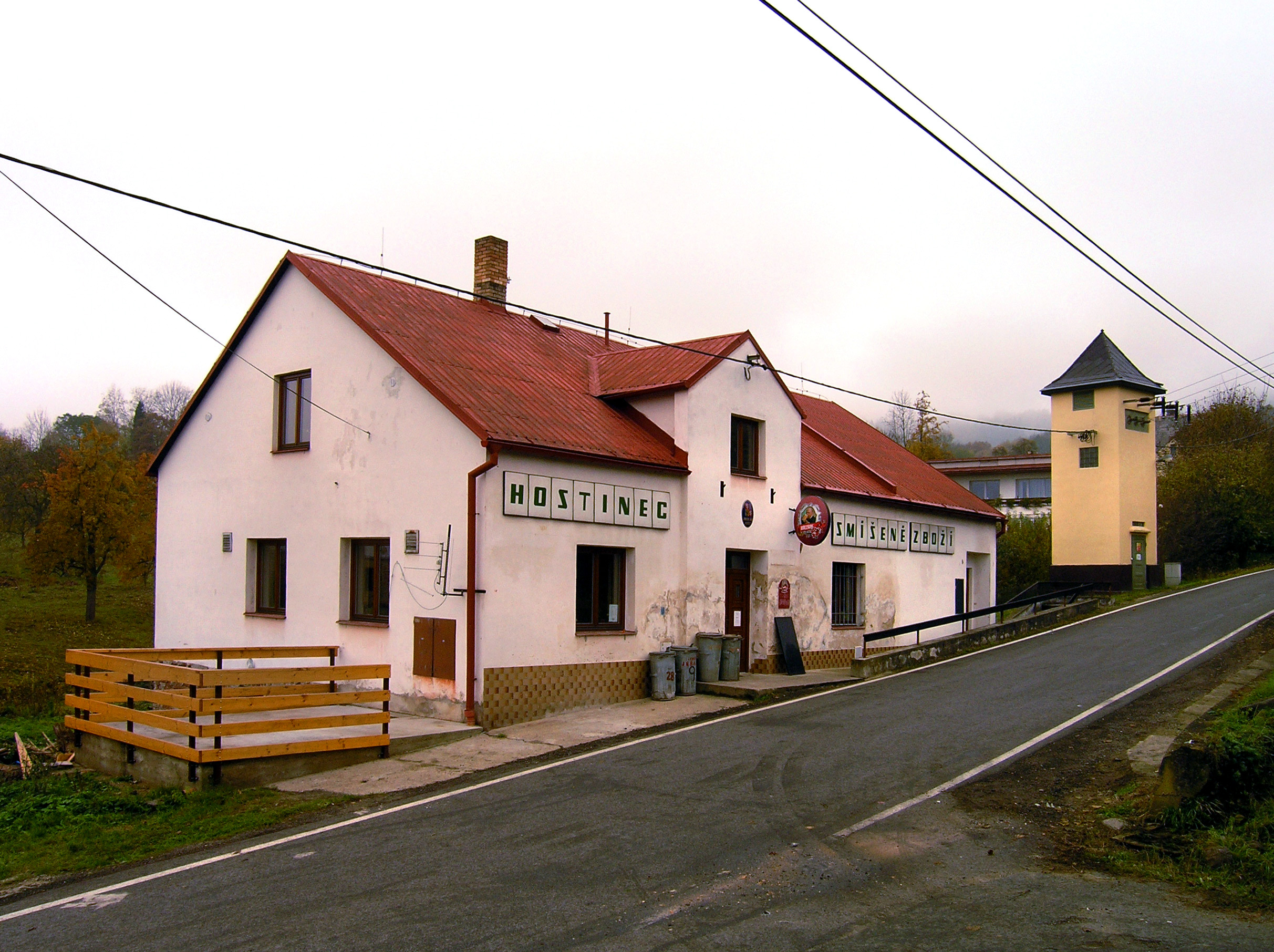 Municipal office in Kozly village, Czech Republic